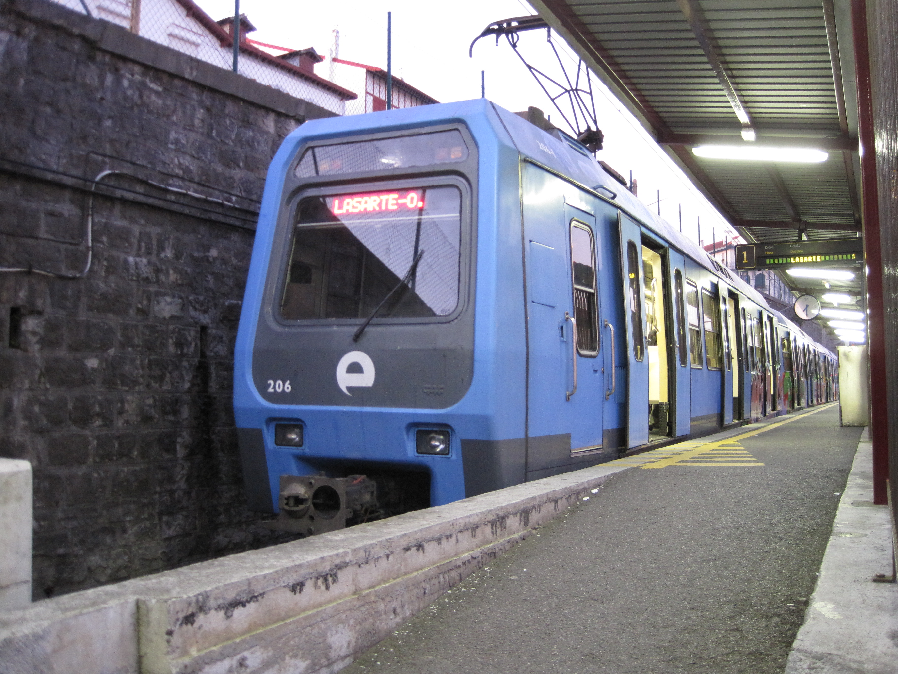 Euskotren in Hendaye